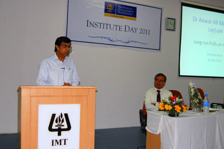 Amitava Bose At Institute Day (he is the left one in the picture? holding the presentation (see slides))